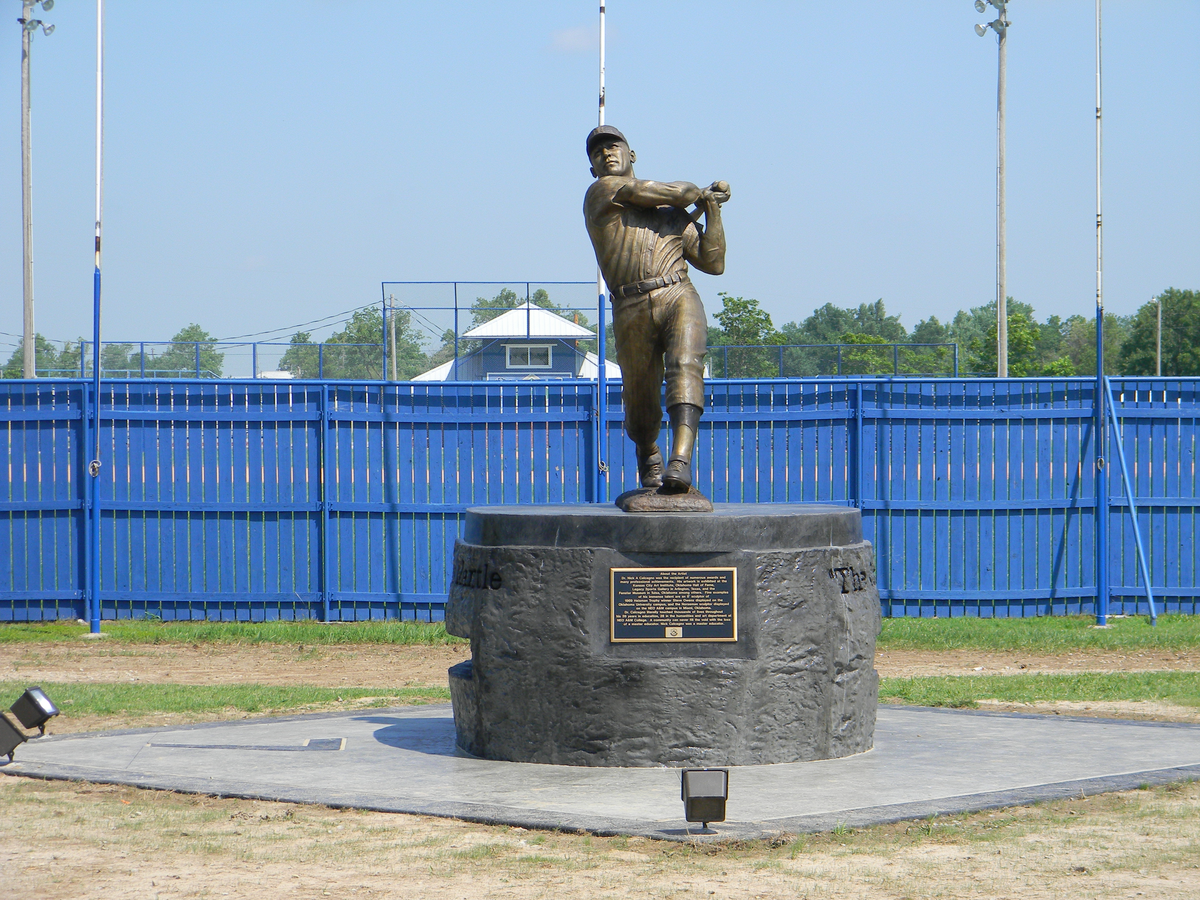 Monument to Mickey Mantle in Commerce, Oklahoma. The Mick was a switch hitter!